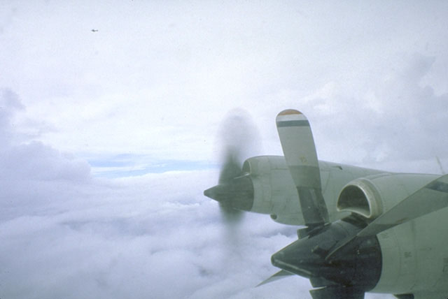 View of the stopped #3 engine just outside Hugo's eyewall. NOAA 43, at upper left, escorts us home.